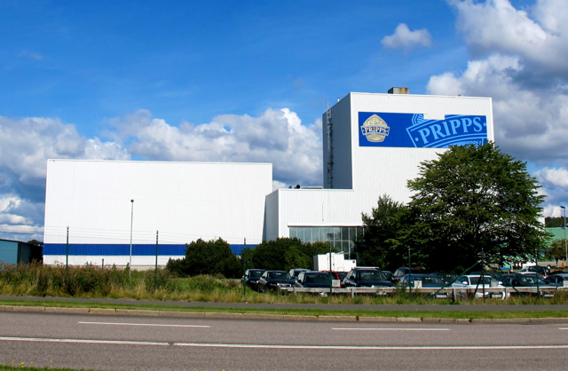 The former site of the brewery Pripps in Västra Frölunda, Göteborg, Sweden. The brewery was shut down after the takeover by Carlsberg in 2001.